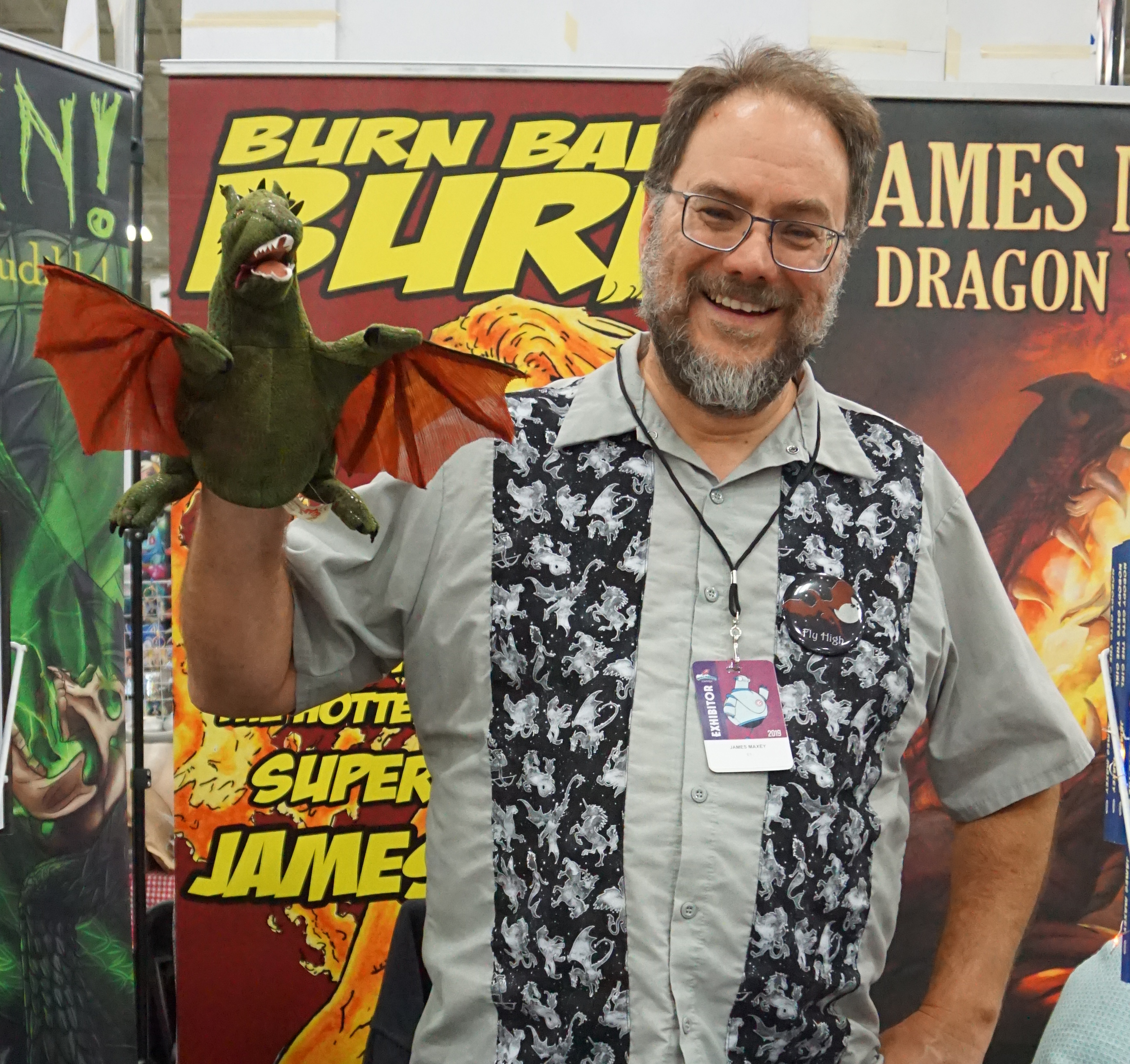 James Maxey at GalaxyCon Louisville in 2019